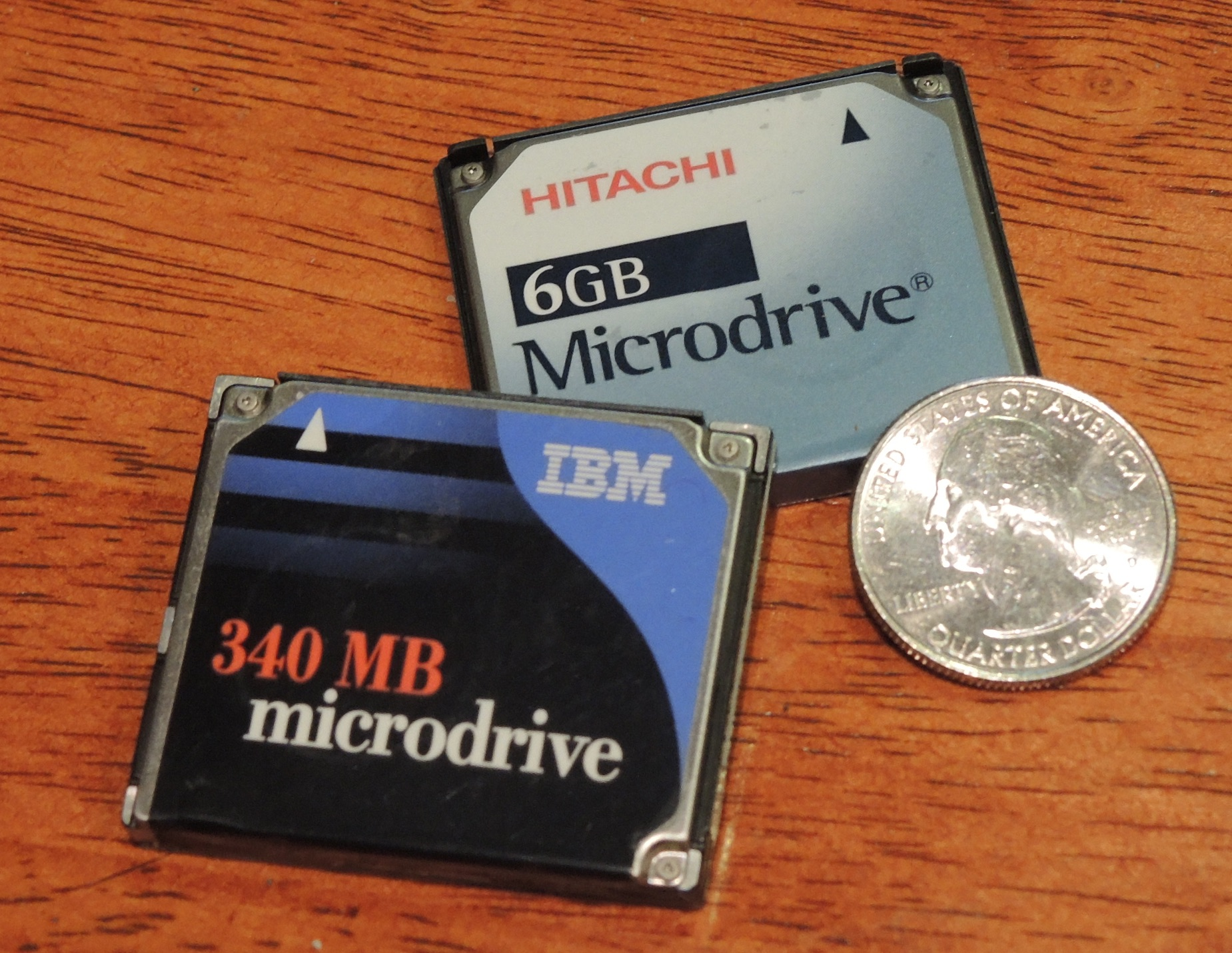 An IBM 340 MB Microdrive HDD and a Hitachi 6GB Microdrive HDD compared to size of a quarter.